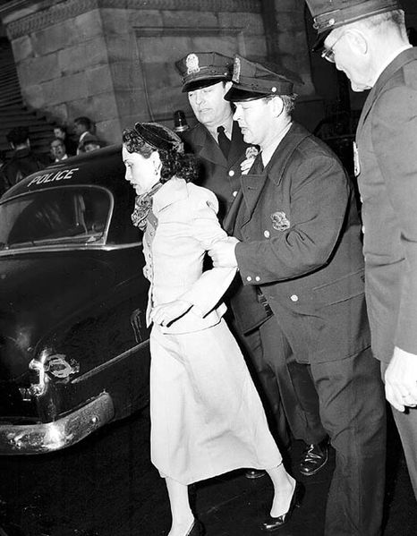 Image of Lolita Lebrón's 1954 arrest at the Congress, Washington D.C. Moved from English Wikipedia. Lolita Lebron, Puerto Rican nationalist leader, being led to police car by two police officers following her arrest in the shooting of five congressmen in the House of Representatives.